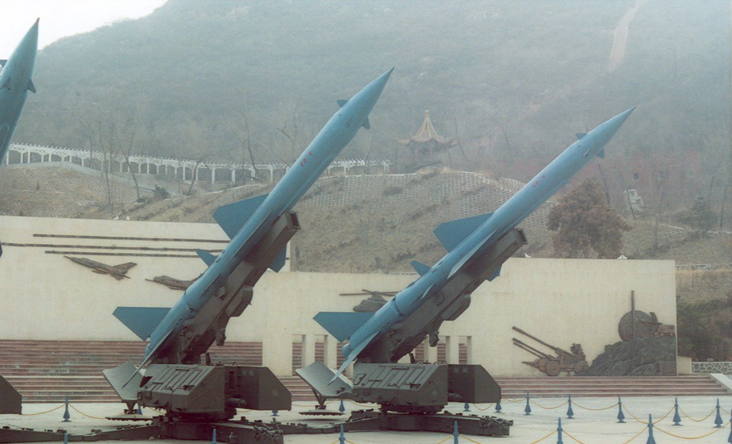 Chinese-built S-75 Dvina missiles have the designation HQ-2 which are displayed at the China Aviation Museum.